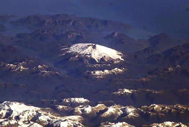 Glacier-clad Melimoyu is the prominent stratovolcano in this oblique NASA International Space Station image looking west toward the Corcovado Gulf. The volcano has an ice-filled 8-km-wide caldera that is drained by a glacier through a notch in the NE rim. The basaltic-andesite volcano is Pleistocene-Holocene in age.